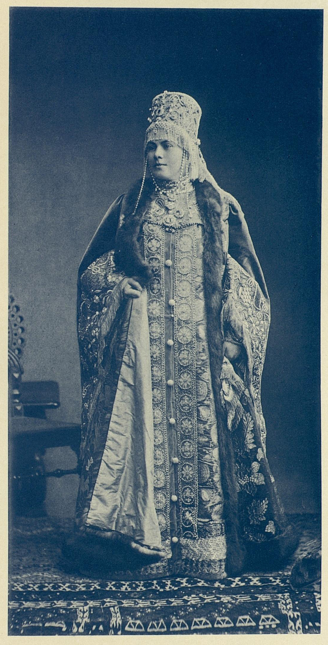 Natalia Fedorovna, Princess Karlova, née Vonlyarskaya